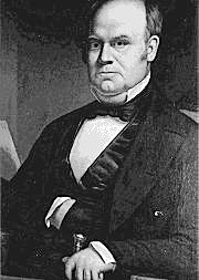 Image edited from